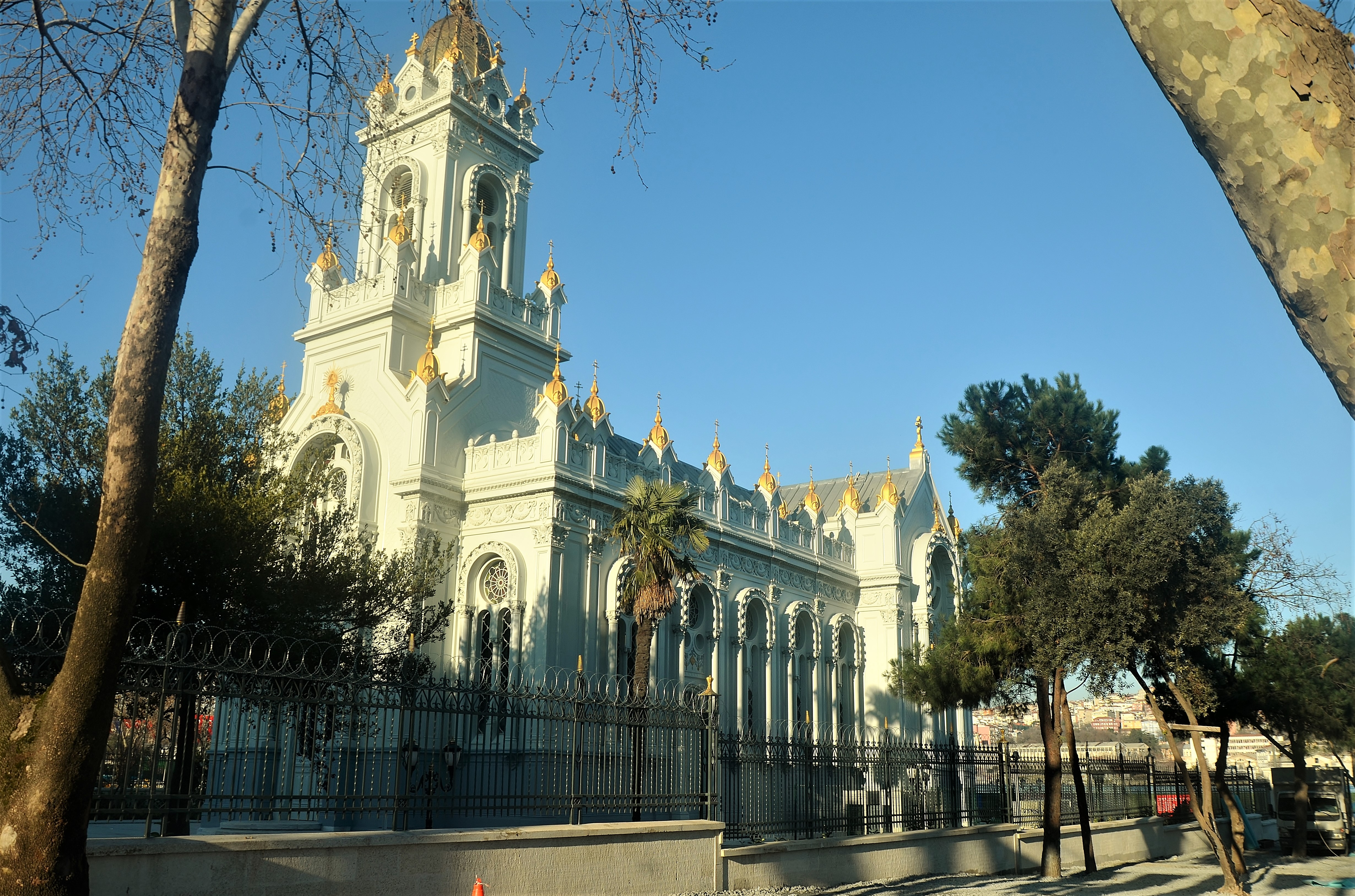 Sveti Stefan Church, aka the Iron Church, in Fener neighborhood of Fatih, Istanbul, Turkey on the day of inauguration after seven years of restoration financed by the Metropolitan Municipality of Istanbul.